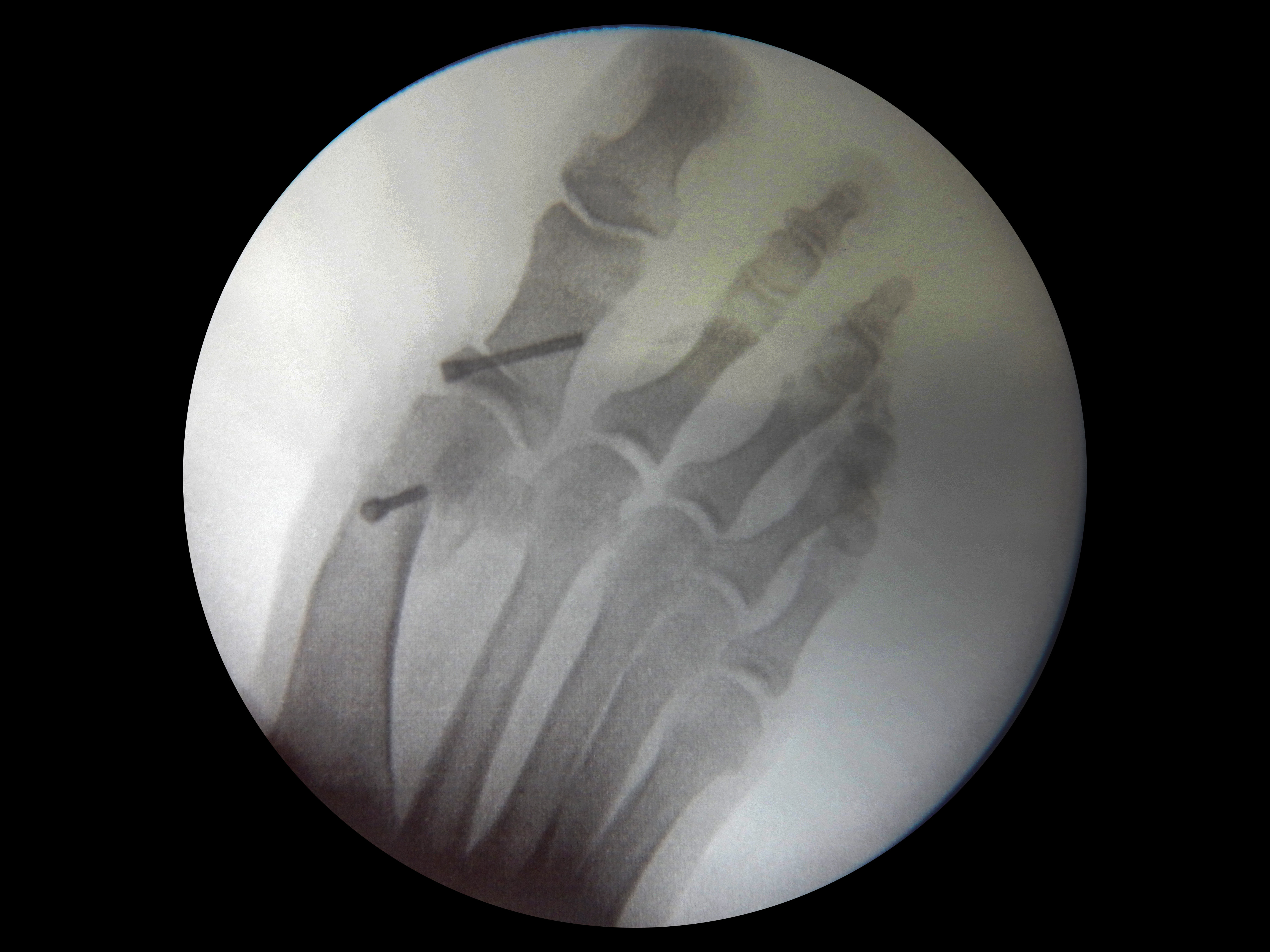 Radiography after surgery of Hallux valgus in a patient (about 24 years old)